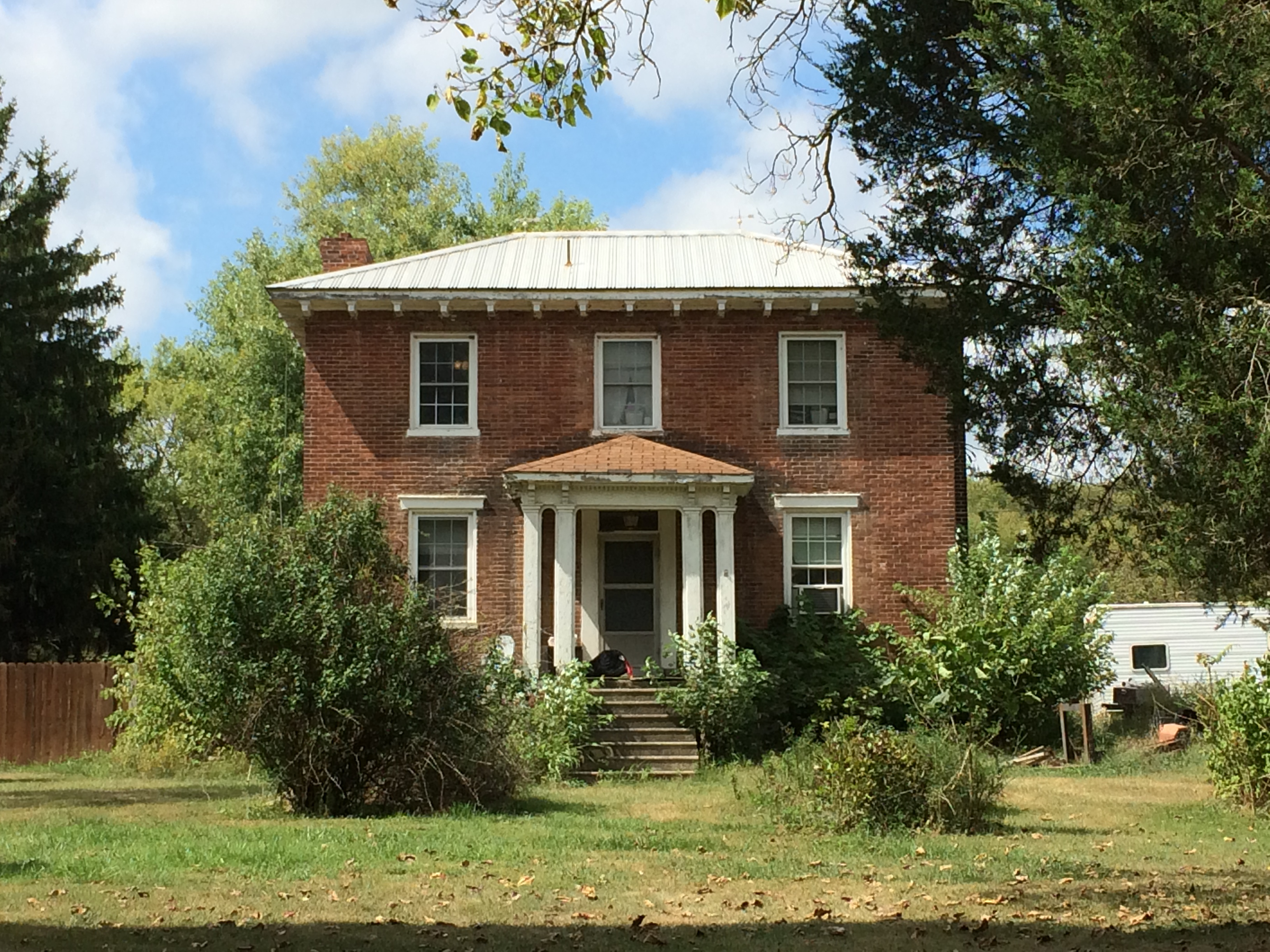 The Gower House (c. 1830s) is a mid-19th century residence along Green Spring Valley Road (West Virginia Secondary Route 1) in Donaldson, West Virginia, United States. Photographed by Justin A. Wilcox of Washington, D.C. on September 10, 2014.